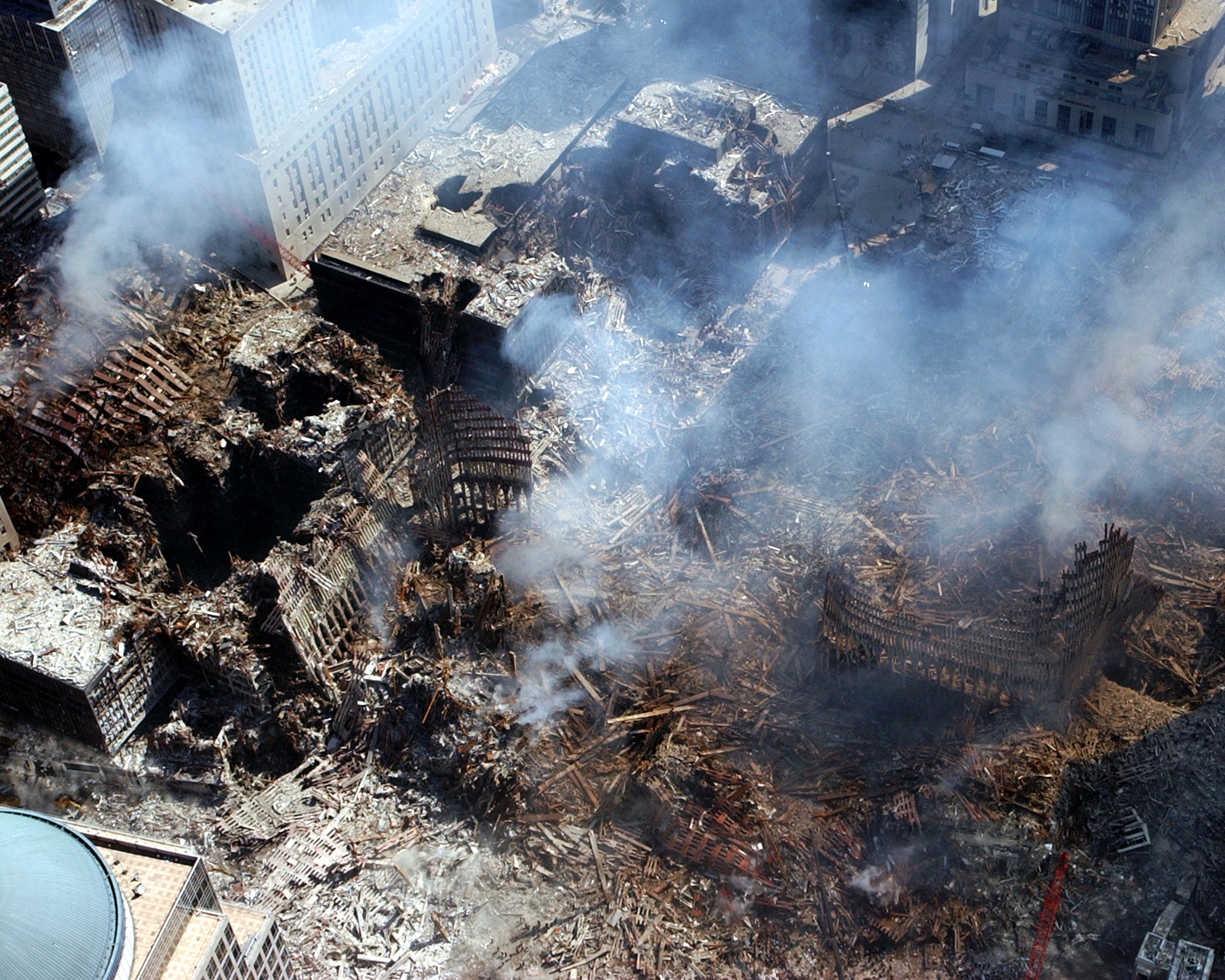 Ground Zero, New York City, N.Y. (Sept. 17, 2001) -- An aerial view shows only a small portion of the crime scene where the World Trade Center collapsed following the Sept. 11 terrorist attack. Surrounding buildings were heavily damaged by the debris and massive force of the falling twin towers. Clean-up efforts are expected to continue for months.